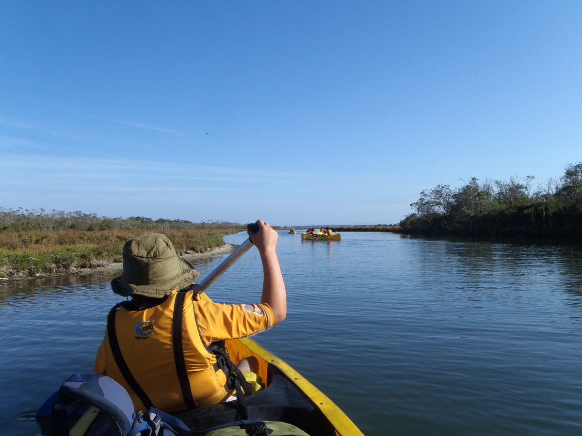 A student kayaking along Lake Victoria at Carey Baptist Grammar School's Camp Toonallook